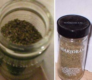 Bottle of Majoram spice. By uploader.